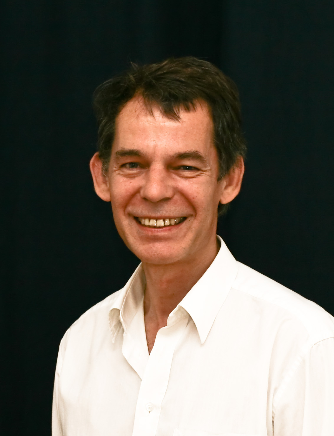 The German radio producer Nikolai von Koslowski